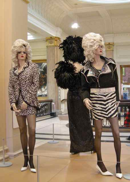 World premiere of 'Savage Style' as part of Liverpool's 2011 Homotopia festival. A collection of outfits as worn by drag legend Lily Savage hosted by The Walker Art Gallery & The Museum of Liverpool.